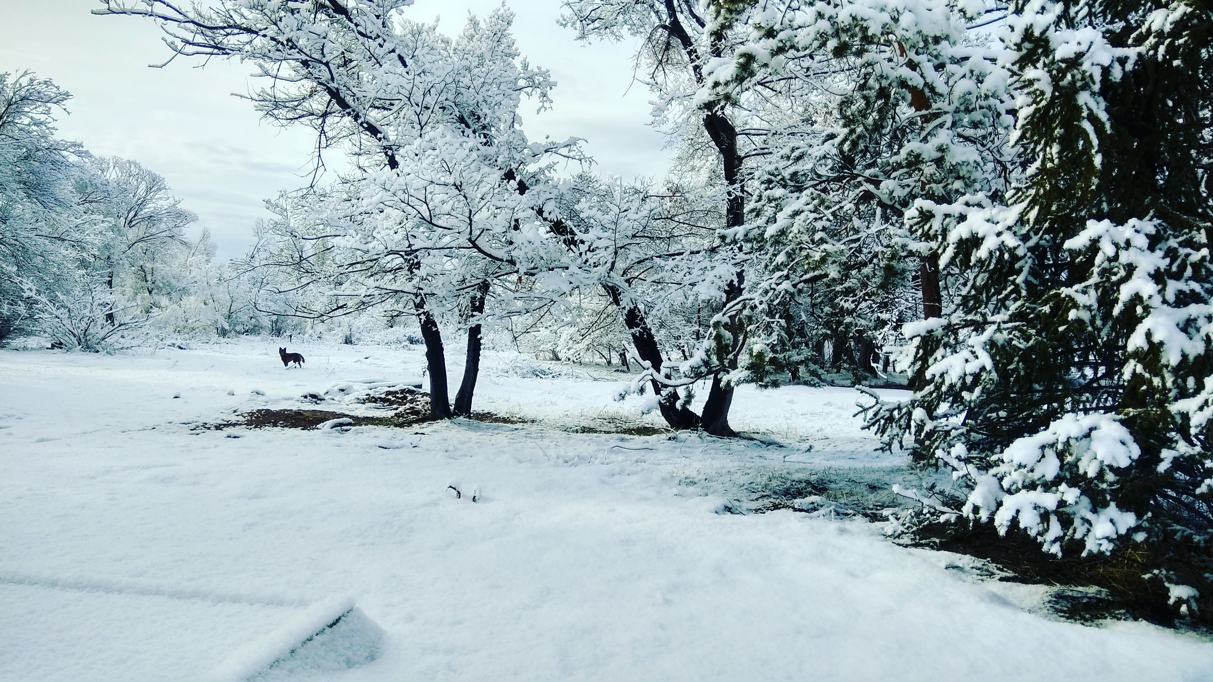 Infront of mess